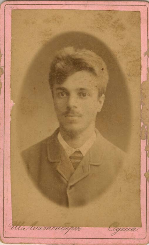 דר' חיים איסר חיסין.